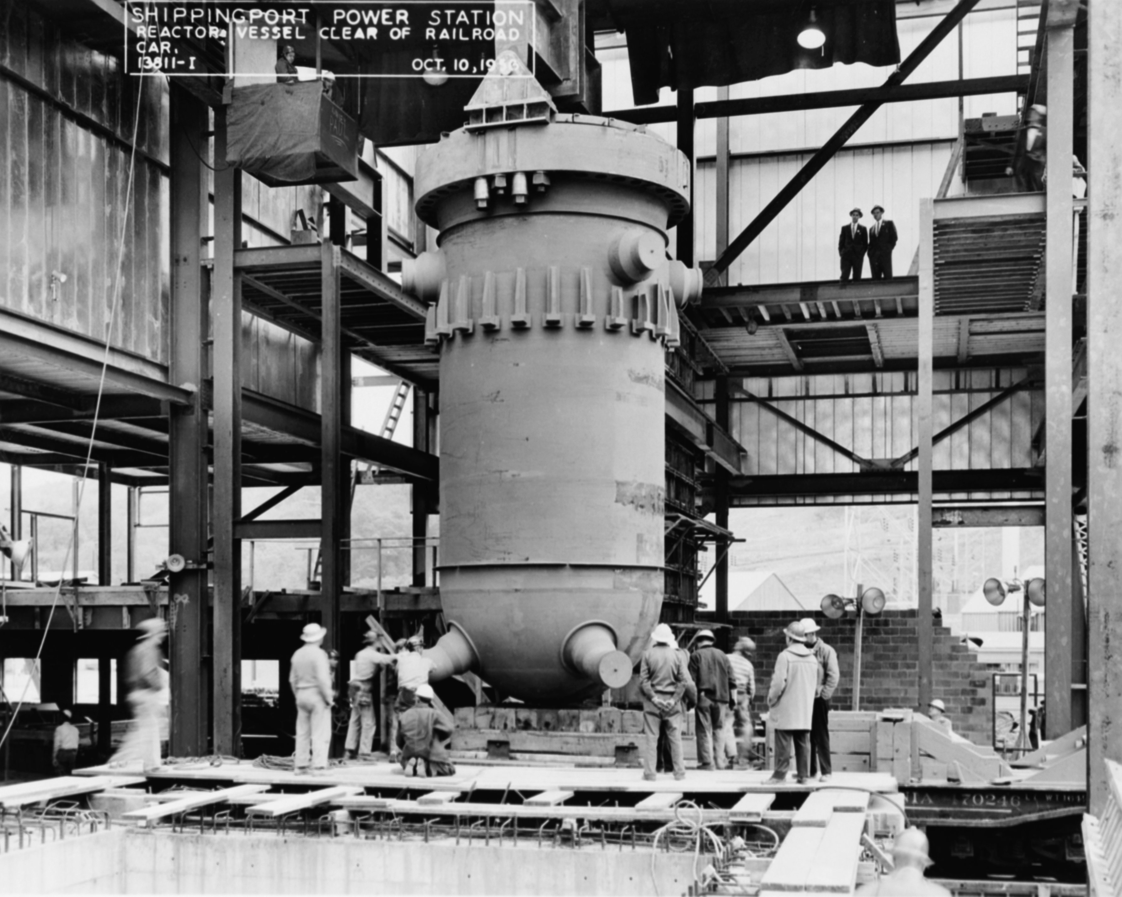 Shippingport Atomic Power Station, On Ohio River, 25 miles Northwest of Pittsburgh, Shippingport, Beaver County, PA 87. REACTOR VESSEL CLEAR OF RAILROAD CAR, OCTOBER 10, 1956 HAER PA,4-SHIP,1-87